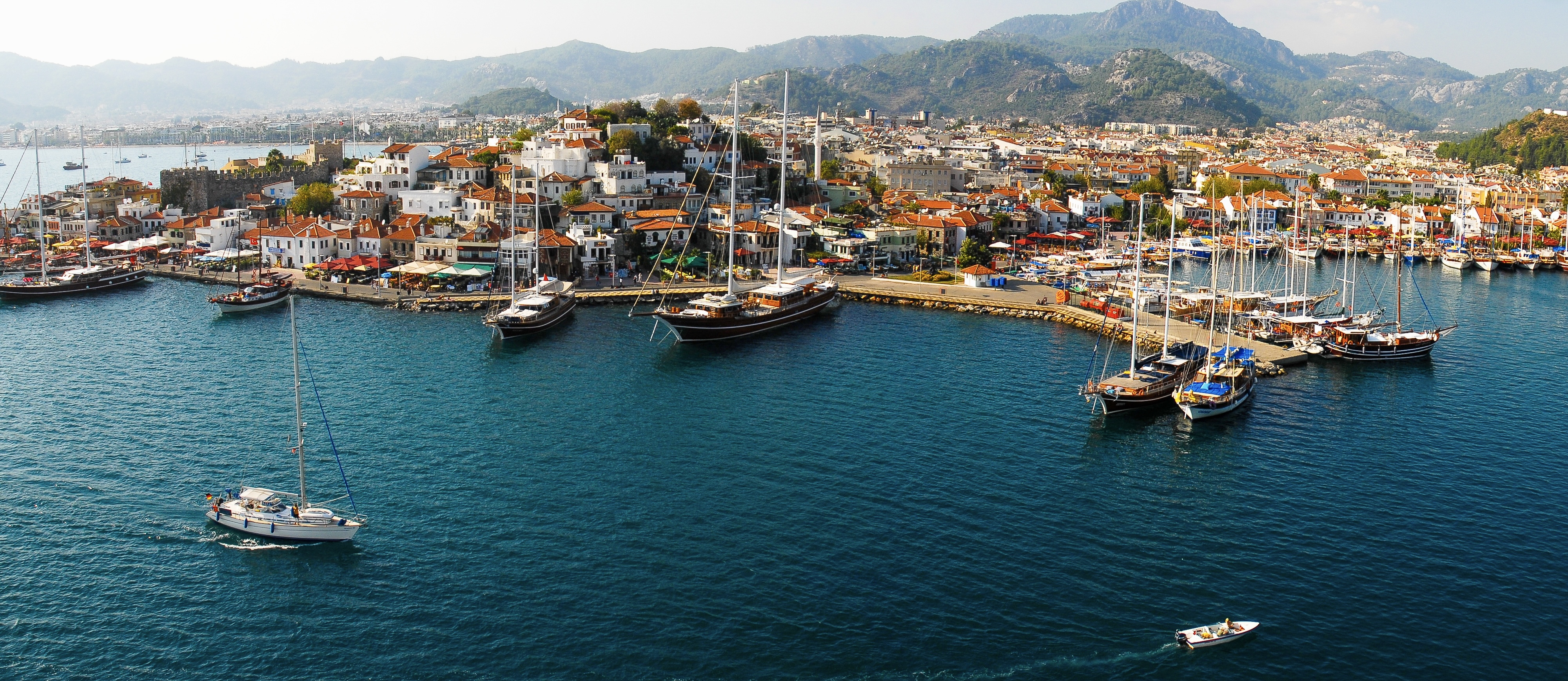 Marmaris harbor (aerial view), Muğla Province, southwest Turkey, Mediterranean.